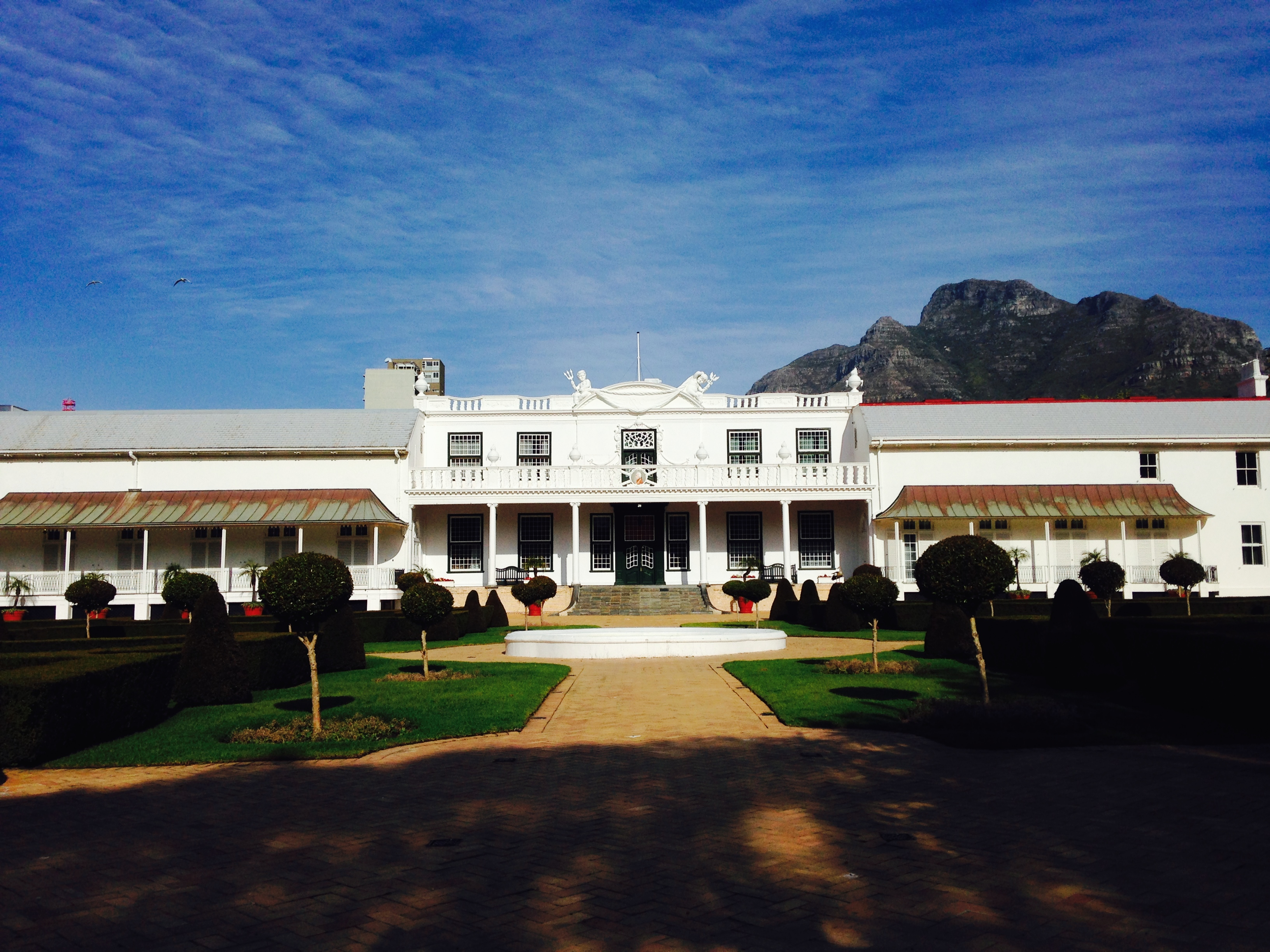 This media shows a South African Protected Site with SAHRA file reference 9/2/018/0235.